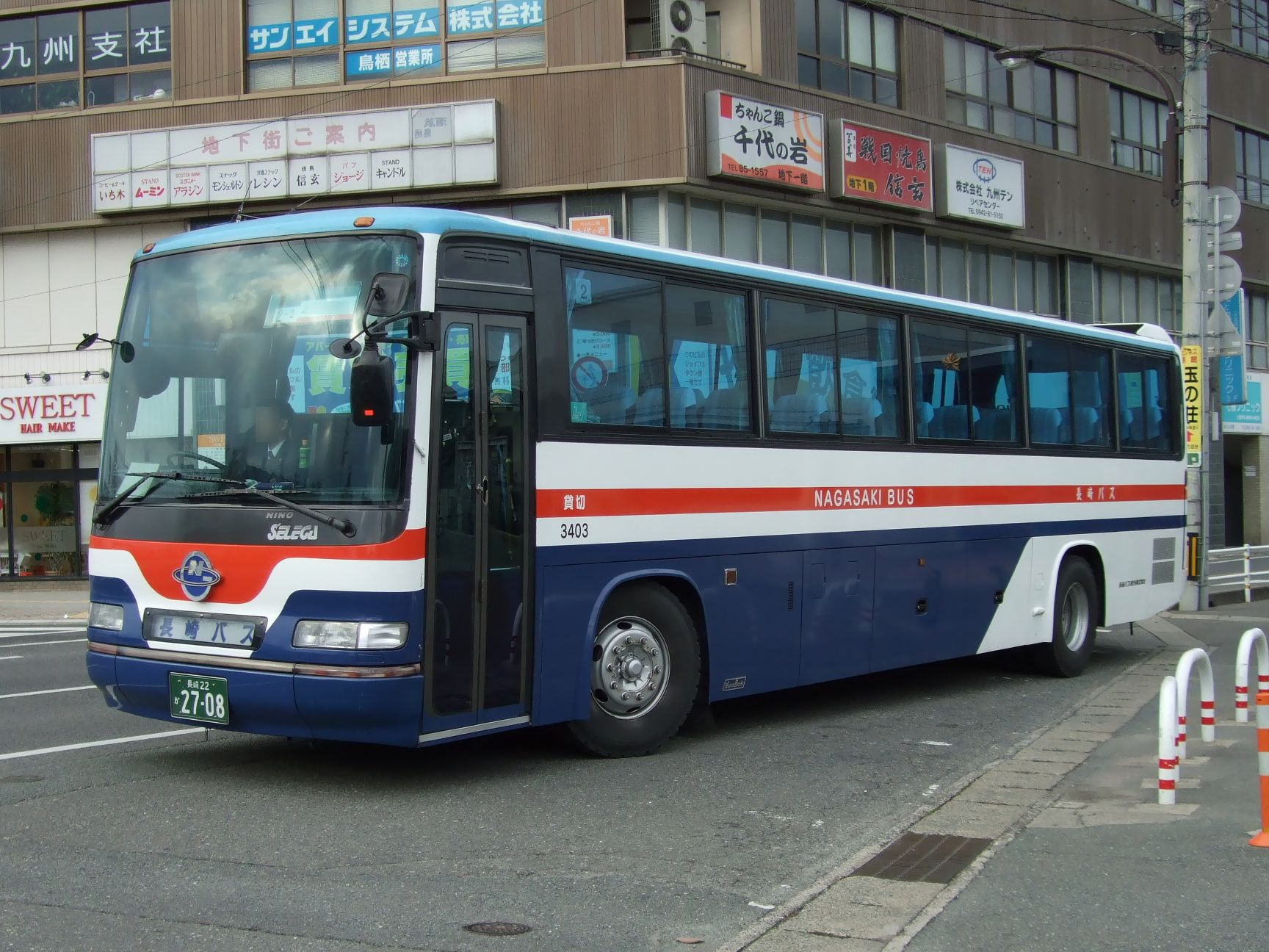 Chartered bus of Nagasaki Bus. See below.